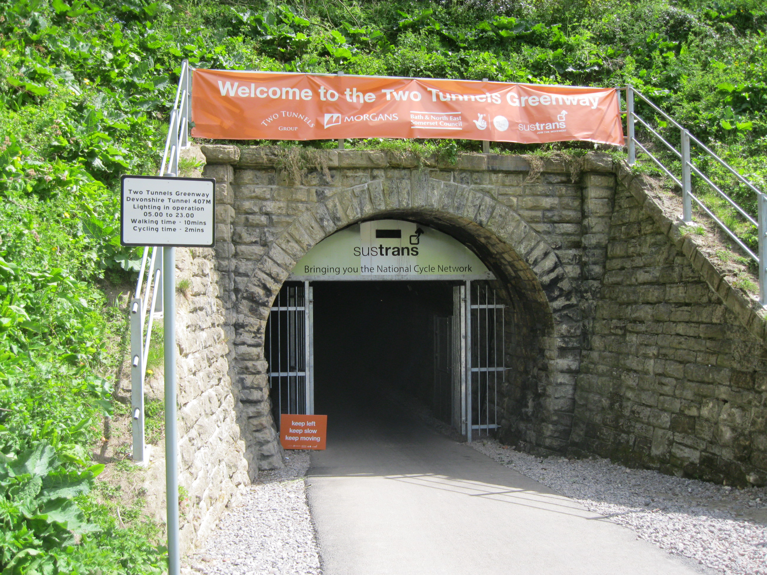 Somerset & Dorset Railway route. Now an excellent cycle & footpath. 447 yards (409 metres long).